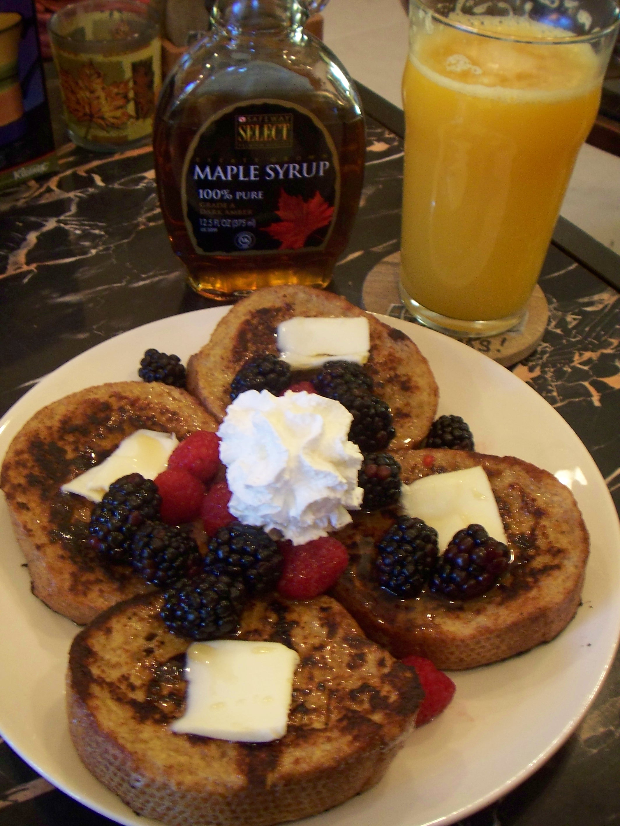 French toast, maple syrup, and orange juice. San Diego, California.